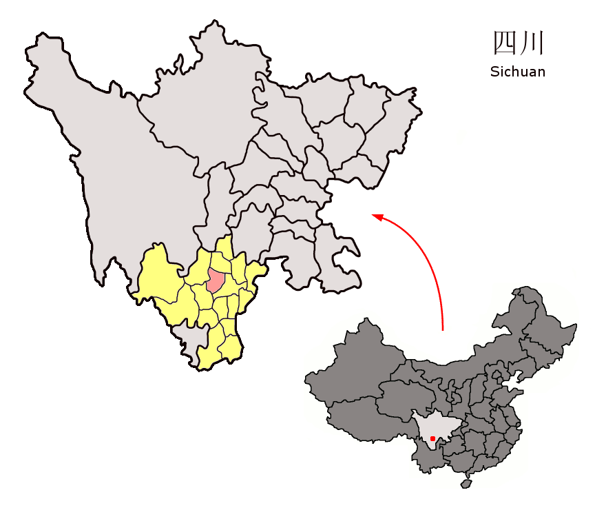 Location of Xide County (pink) and Liangshan Prefecture (yellow) within Sichuan province of China Map drawn in september 2007 using various sources, mainly : Sichuan province administrative regions GIS data: 1:1M, County level, 1990 Sichuan Counties map from